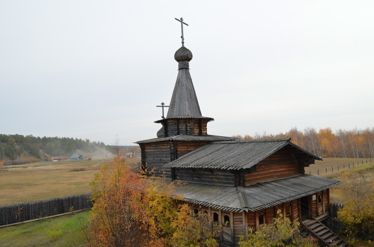 This photos are made during cruise Yakutsk — Lеnskiye Shchyoki, Lena Cheeks — Yakutsk (with arrival in Mirny), 05.09−17.09.2016